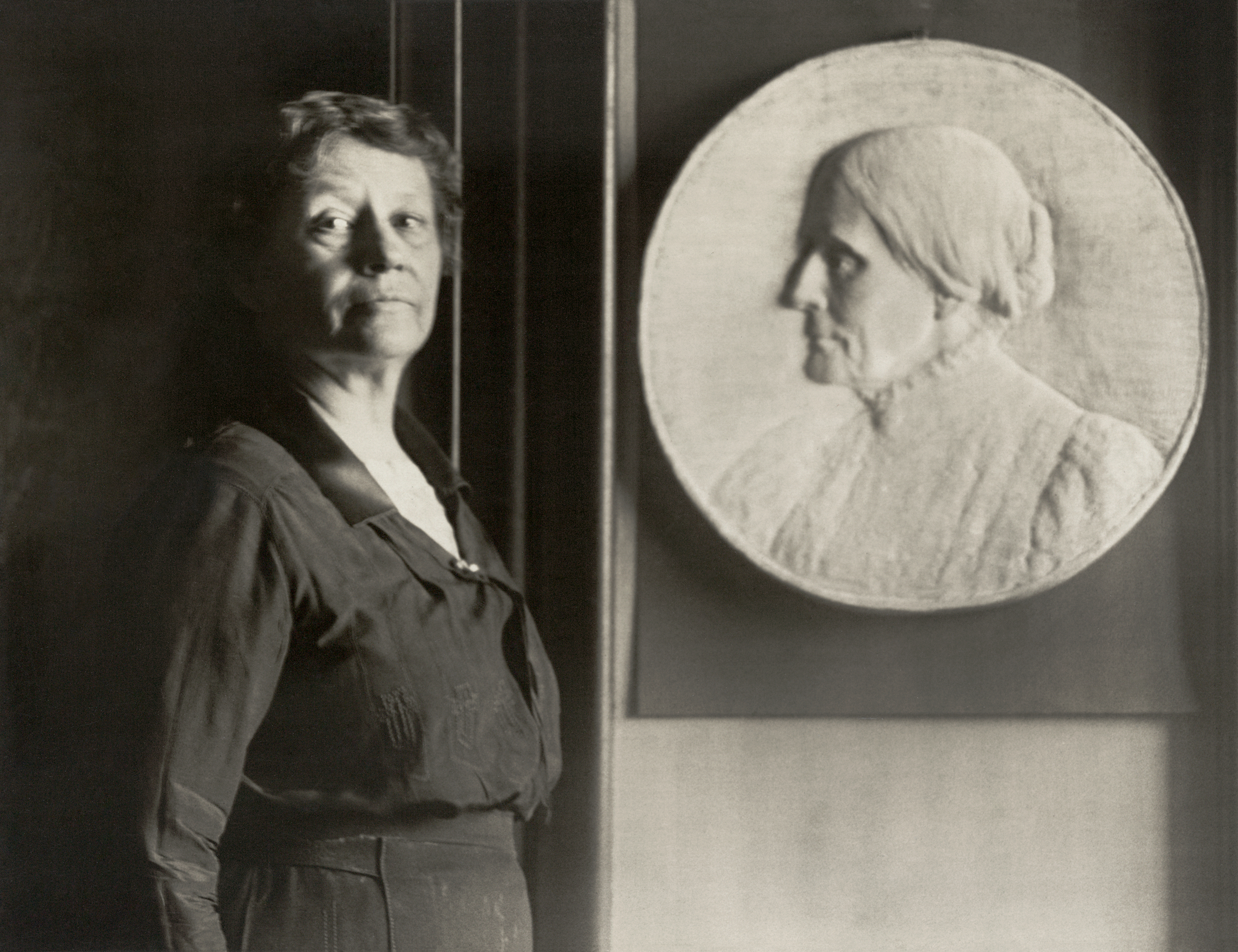 "Miss Leila Usher, Sculptress, with bas-relief of Susan B. Anthony" Print, 6.5 x 8.5 in. before cropping, of an informal portrait, half-length, showing Leila Usher, facing right with head turned toward camera, standing next to her bas-relief sculpture of Susan B. Anthony. From the Records of the National Woman's Party. This photograph forms the basis for an advertisement or press release in the May 5, 1922 issue of The Dickson County Herald, the text of which reads: “ Gift for National Woman's Party Miss Leila Usher, sculptress, standing beside the bas-relief of Susan B. Anthony, pioneer suffragist, which she has presented to the National Woman's Party. This work of art will be installed in the national headquarters of the party, which overlooks the capitol of the nation. ” The Library of Congress mentions it was published on page 18 of the Washington Post on April 8, 1922; this may or may not be the same press release.